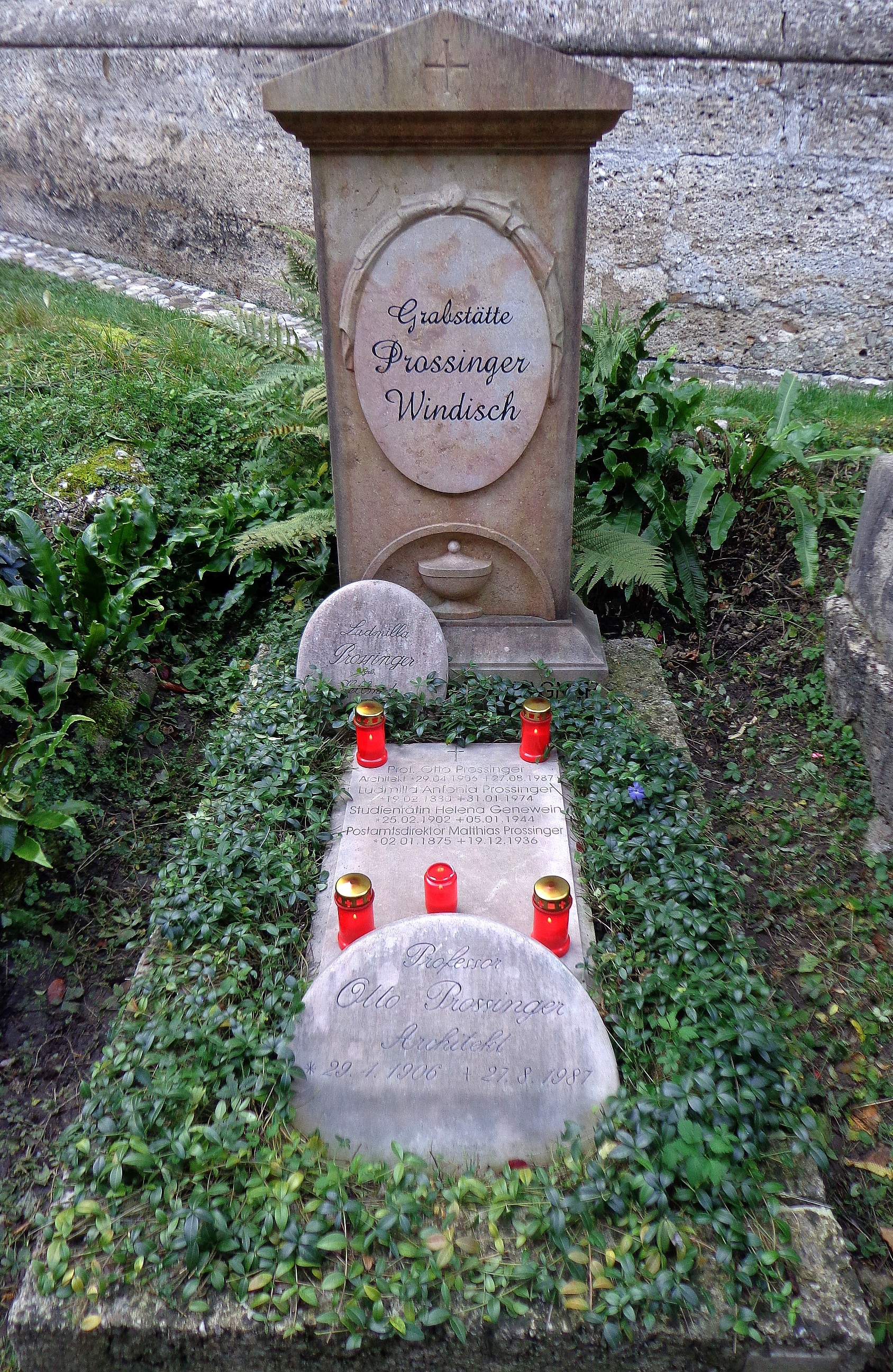 Petersfriedhof Salzburg - grave of the architect Otto Prossinger (1906–1987)